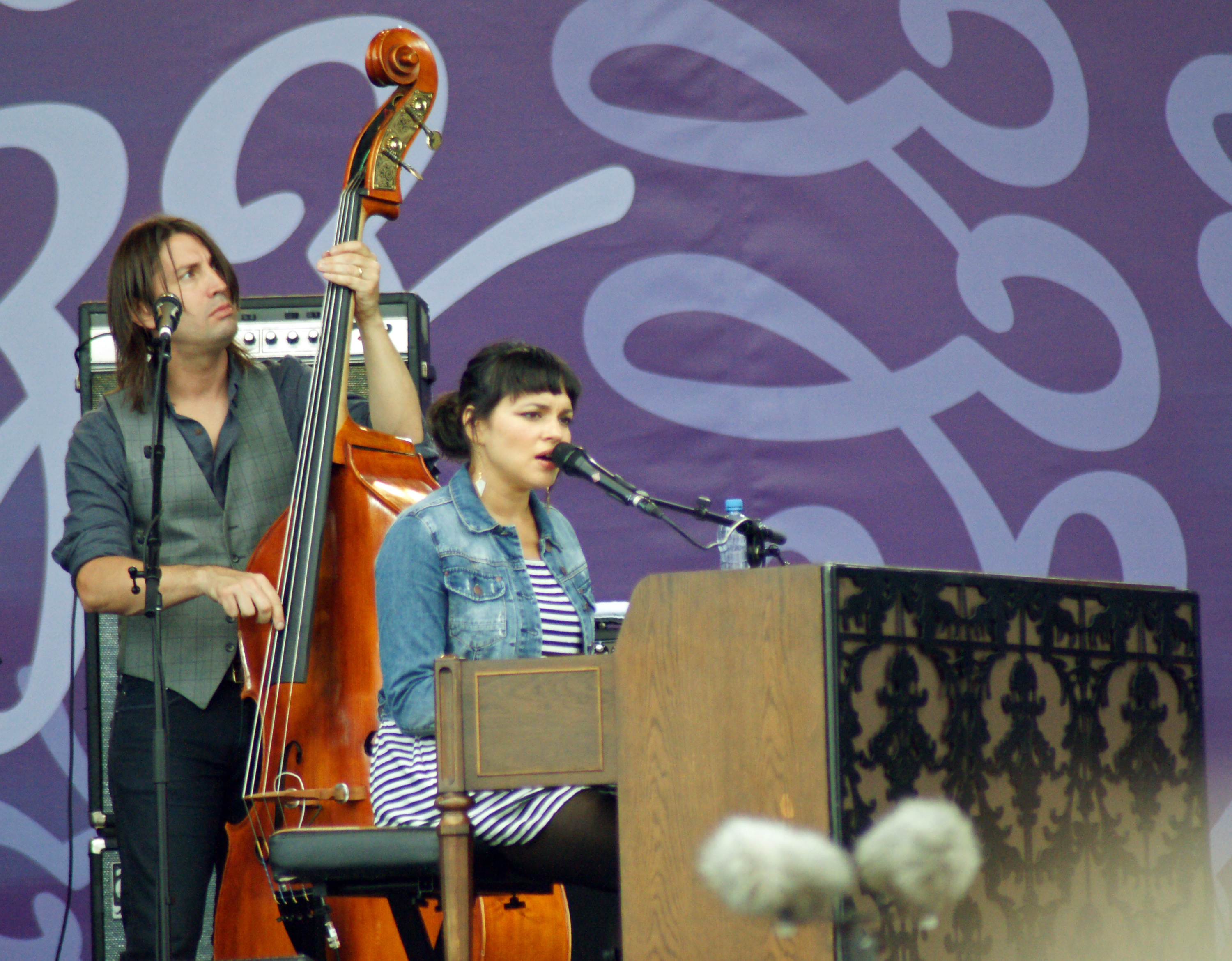 Norah Jones performing at Pori Jazz 2012 in Kirjurinluoto Arena.